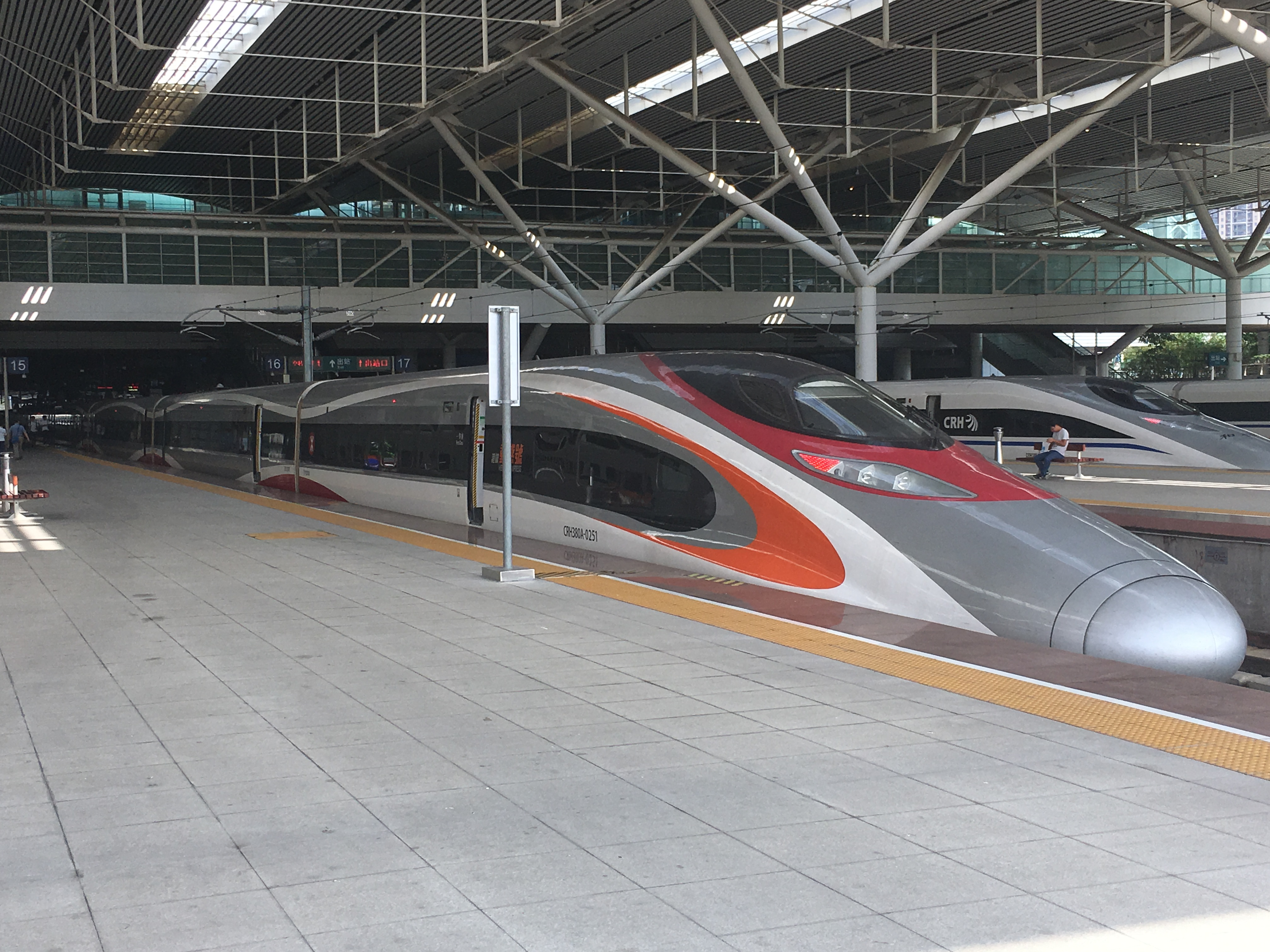 中文（香港）: This photo is taken in Shenzhenbei.